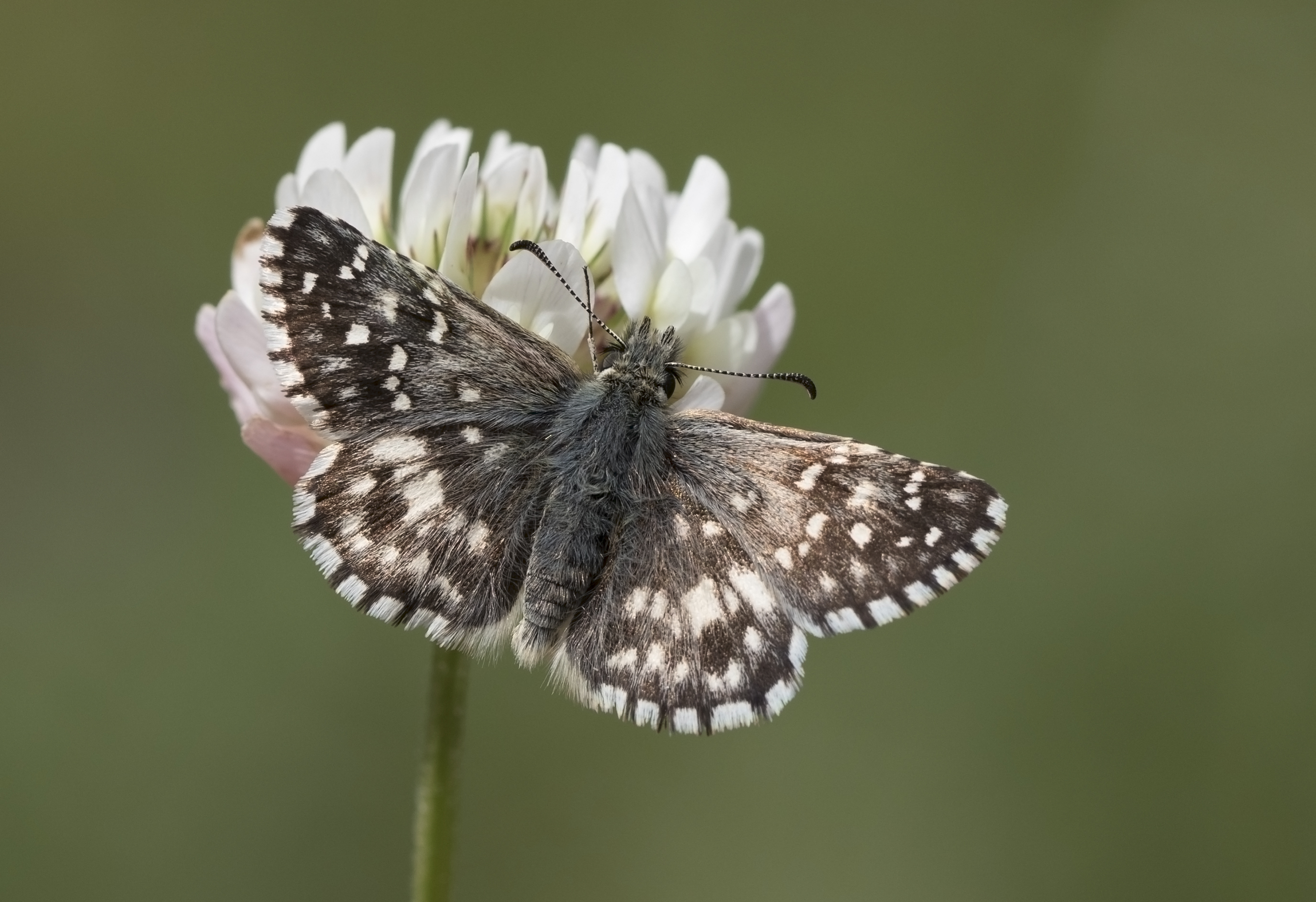 Aegean Skipper (Pyrgus melotis). Cöbük Forest, Saimbeyli - Adana, Turkey.